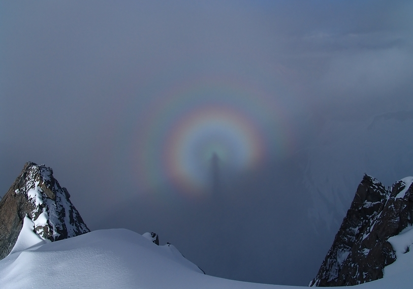 Glory with Brocken Spectre created by the author's shadow on a rising cloud at a South ridge of Peak Korzhenvskaya during a summit day on August 14th, 2006, classic route from Moskvina glacier. Part of a photo collection of Pamir 2006 expedition led by Dmitry Shapovalov.